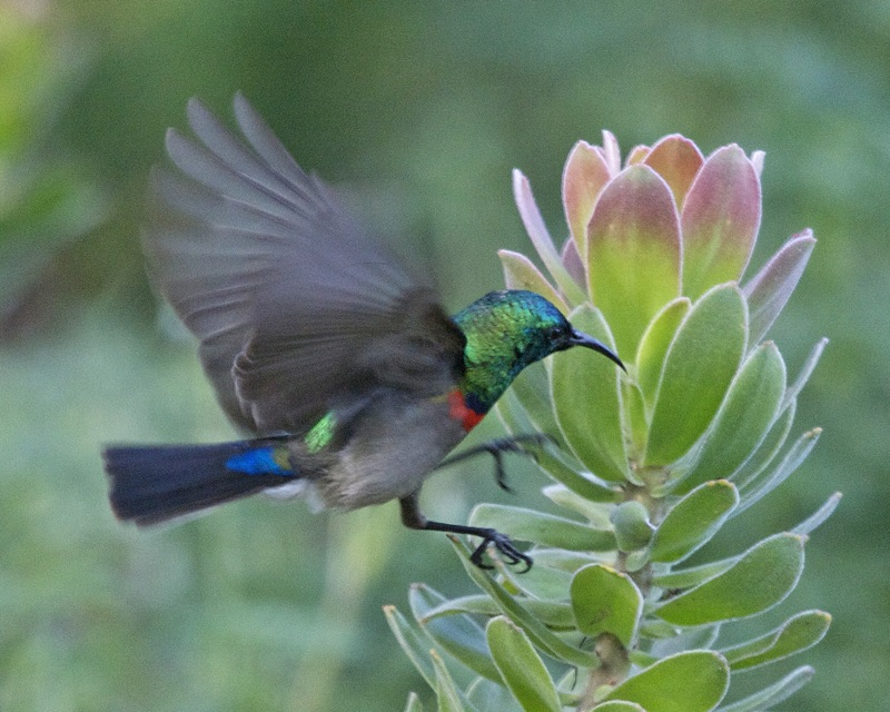 Southern Double-collared Sunbird Cinnyris chalybeus Kirstenbosch, Capetown, South Africa 5th. October 2009 Distribution